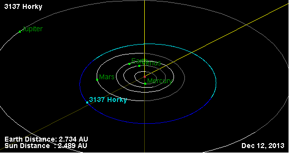 This diagram illustrates the orbit of the Main-belt asteroid 3137 Horky.